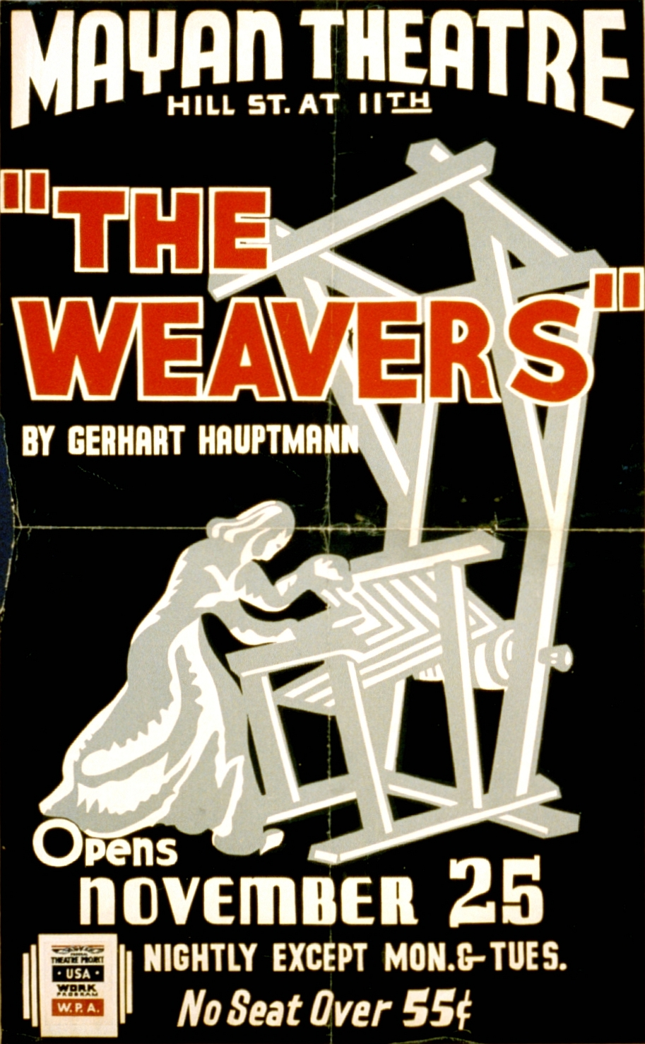 Color silkscreen poster for Federal Theatre Project presentation of "The Weavers" (Die Weber) by Gerhart Hauptmann (1862-1946) at the Mayan Theatre, Hill Street at 11th, Los Angeles, California.